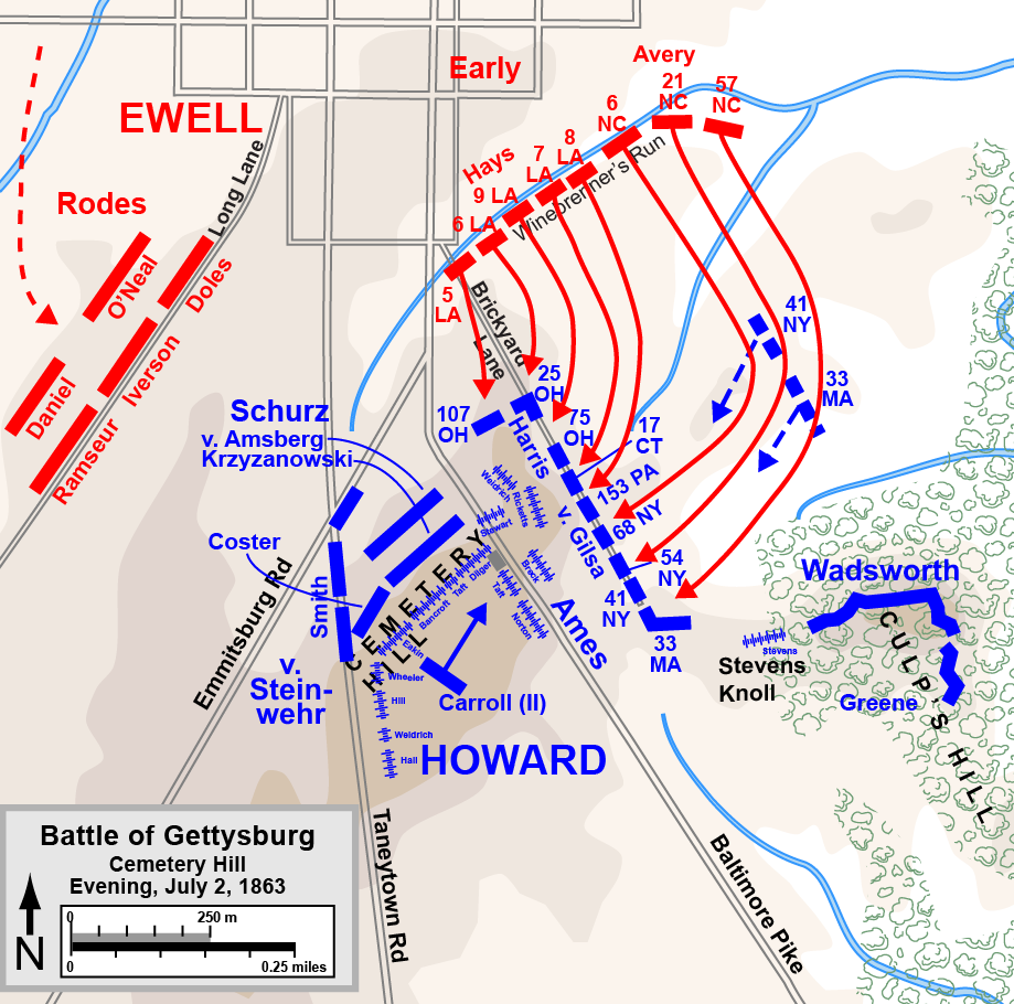 Map of Cemetery Hill action in the Battle of Gettysburg. New version improves accuracy of unit positions and graphic style that matches others in the Gettysburg series. Added legend box. Drawn by Hal Jespersen in Adobe Illustrator CS5. Graphic source file is available at